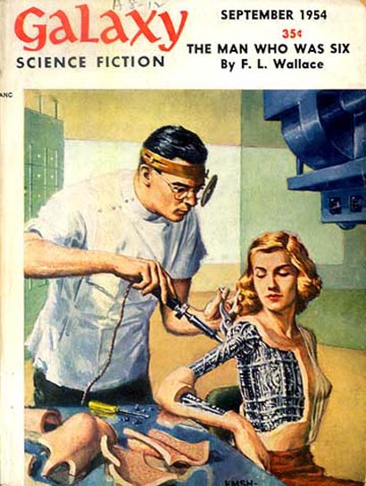 Cover of Galaxy, September 1954